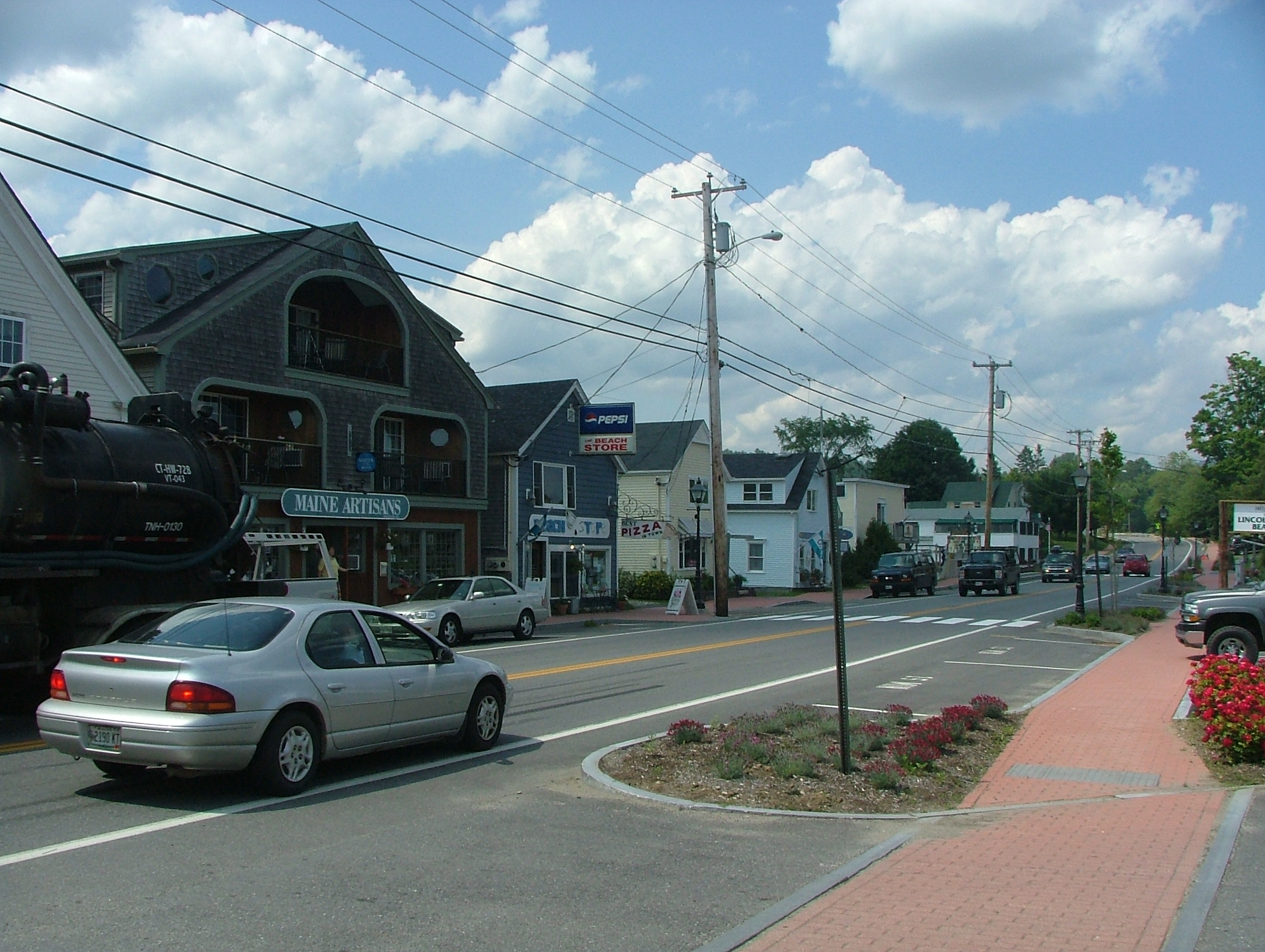 U.S. Route 1 in Lincolnville, Maine.